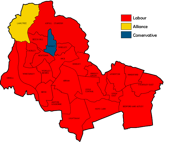 Wigan ward map with political colouring.